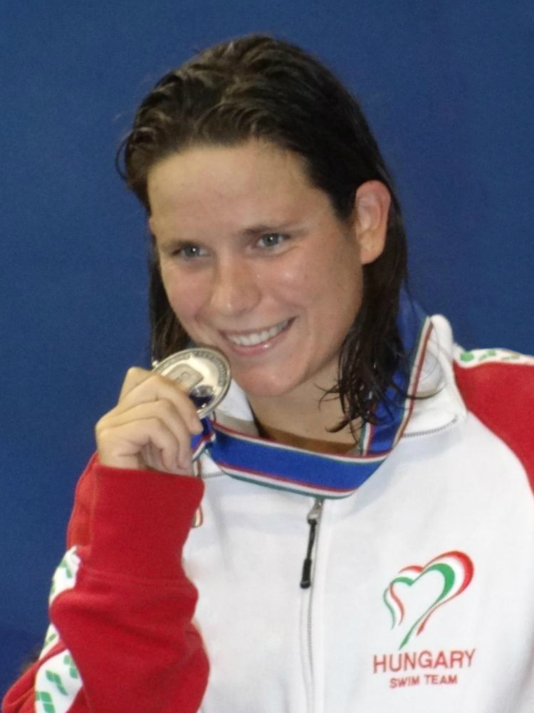 Éva Risztov, Hungarian swimmer